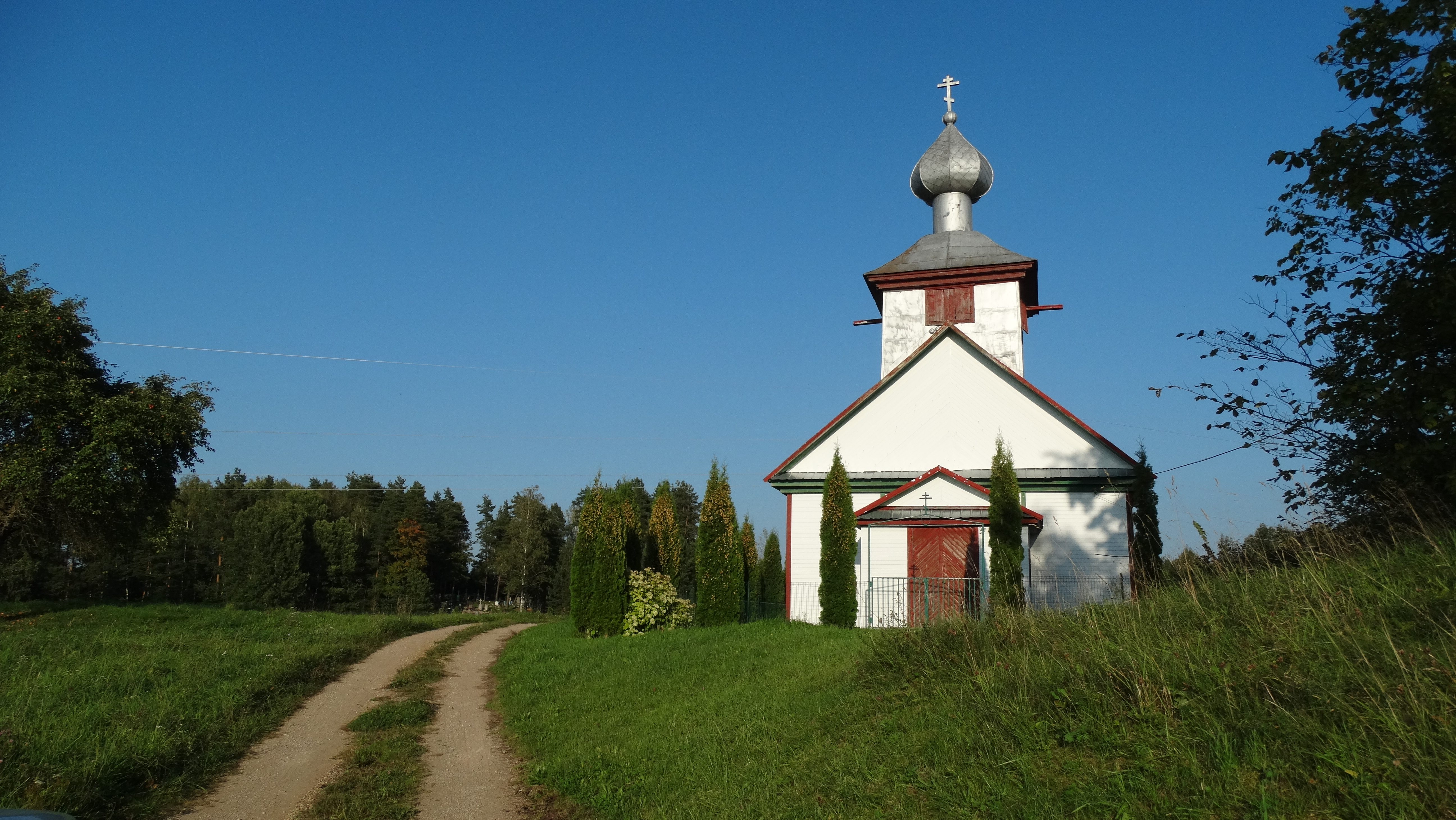 Church of Old Believers in Minauka, Zarasai district, Lithuania